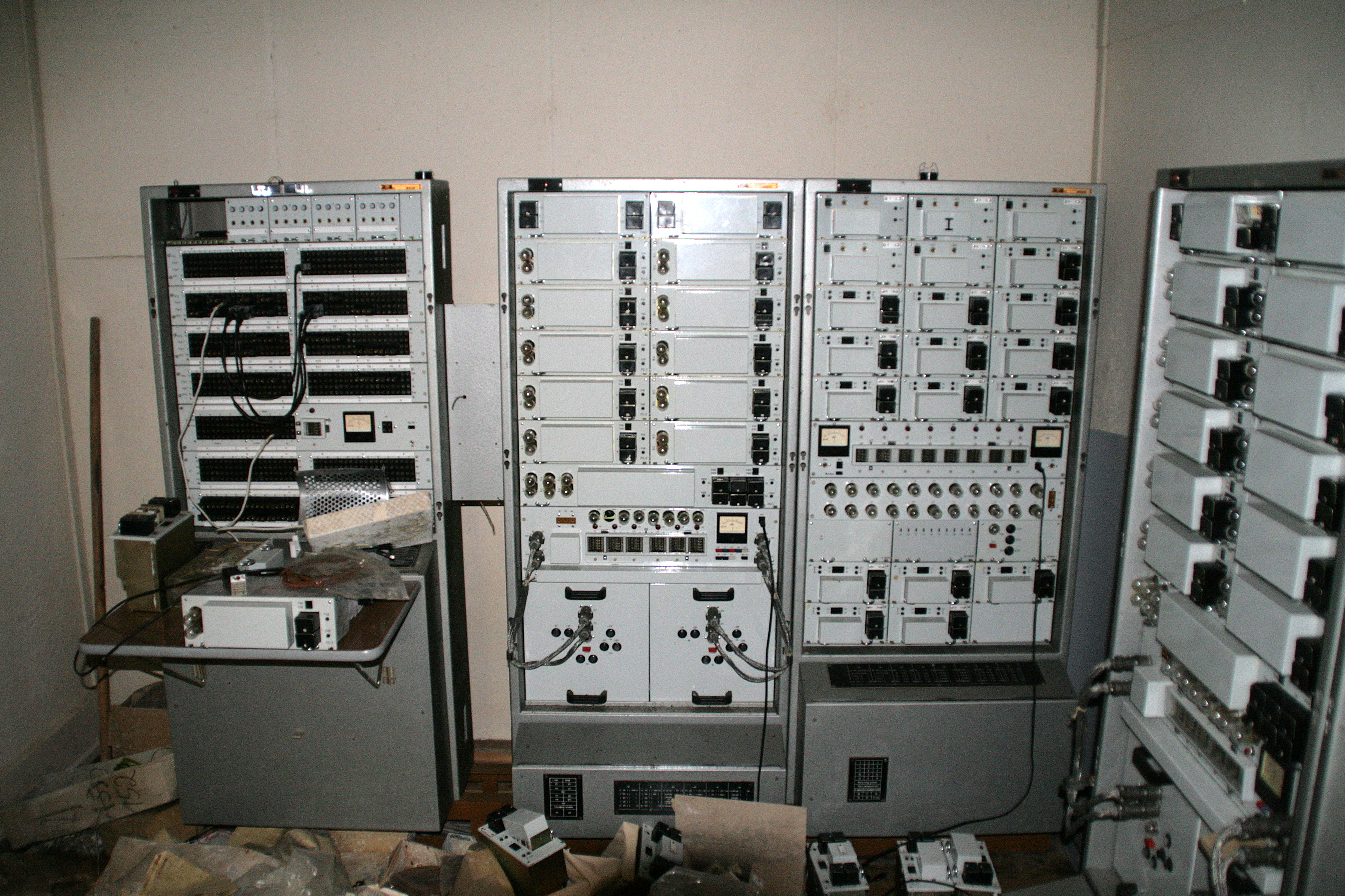 Bunker of Ministry of the Interior of GDR, Freudenberg, TO 02, Telephone Exchange